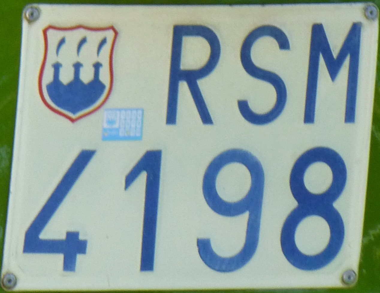 License plate from San Marino, 1966-1976